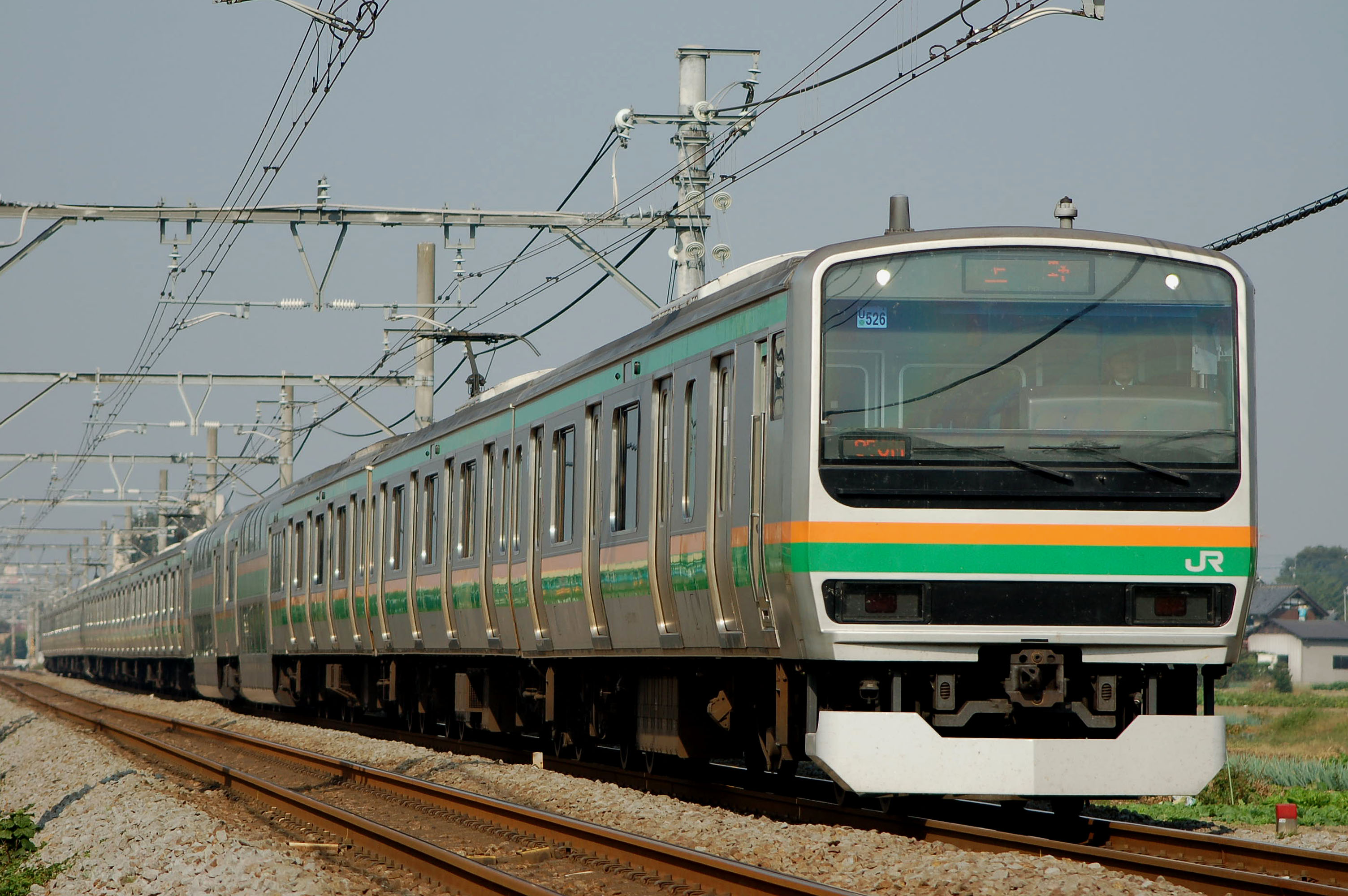 JR East E231 series Train U526, serving Takasaki Line.